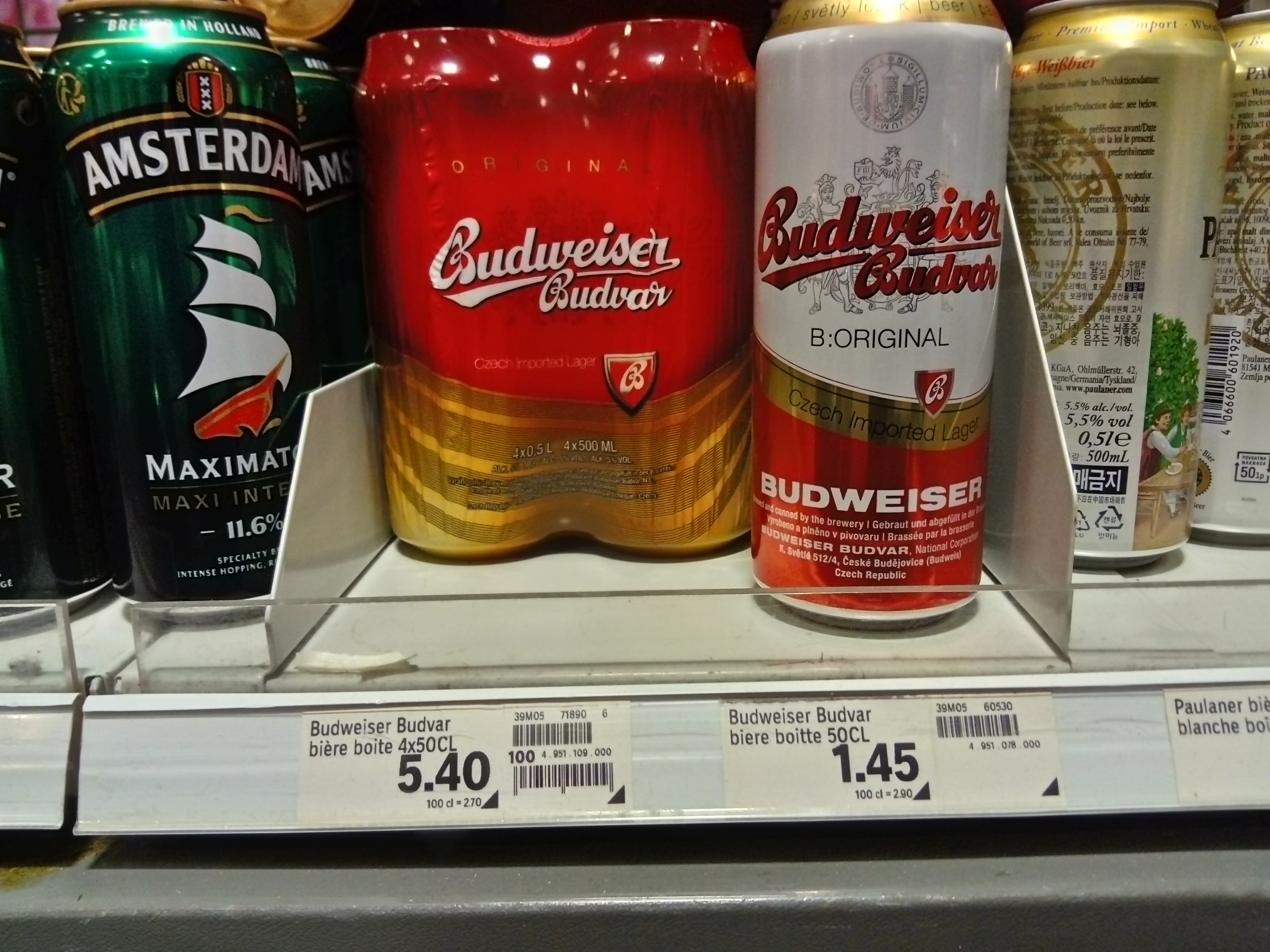 Budweiser sold at Coop Servette in Geneva, Switzerland on 9 December 2017